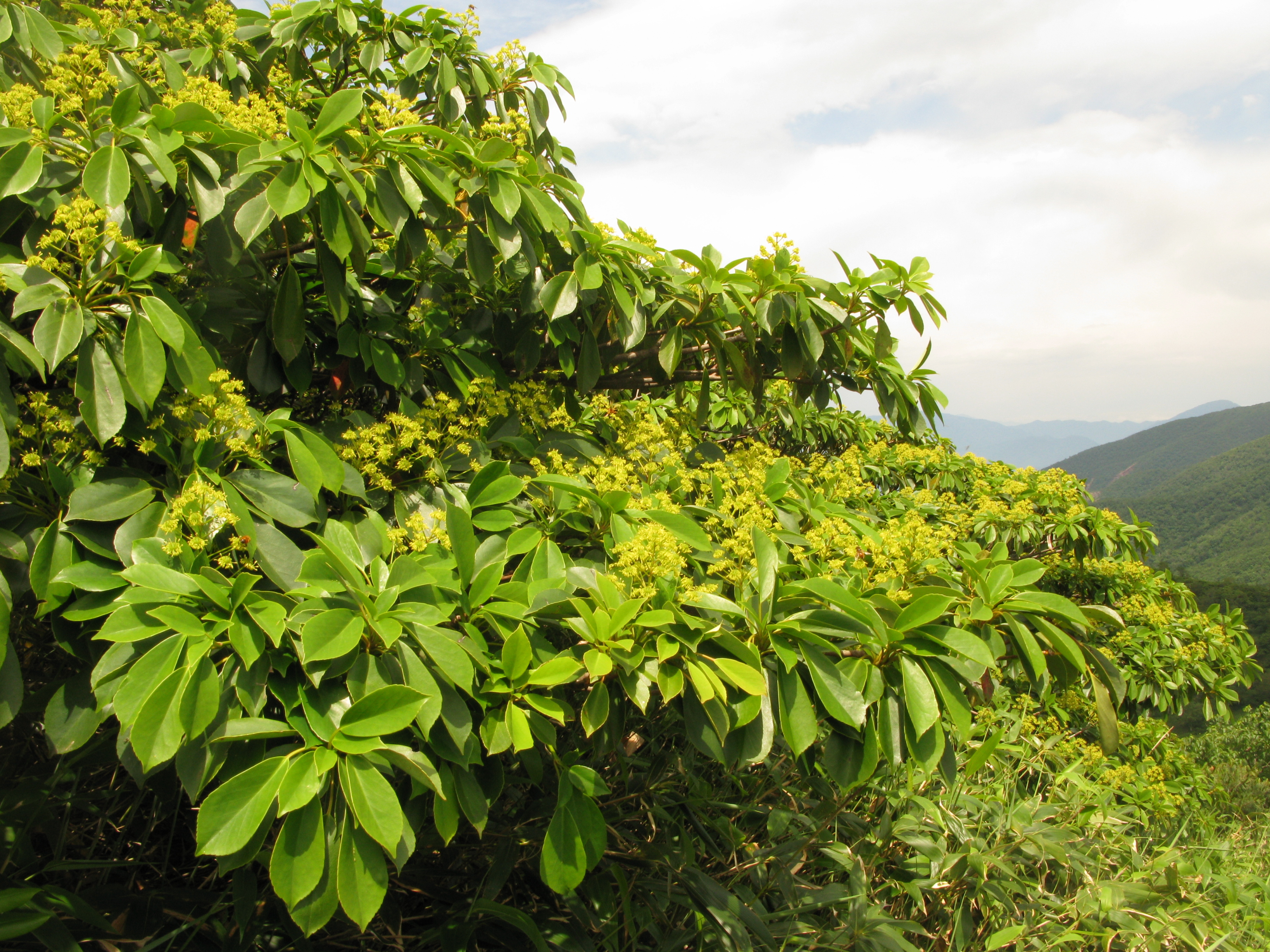 Trochodendron aralioides,Tree,Aizu area,Fukushima pref.,Japan